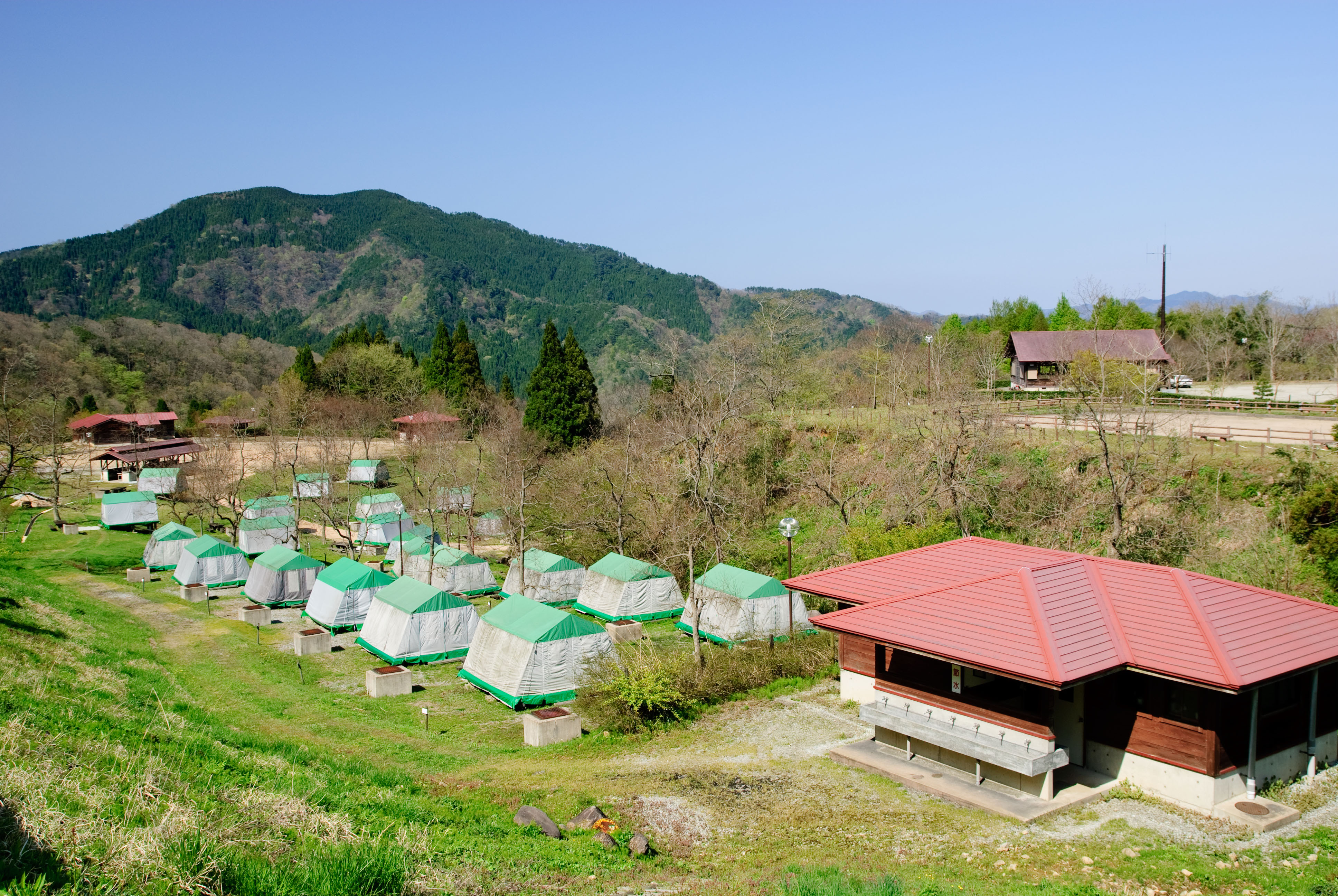 Toyooka Nasa Forest Park in Toyooka,Hyogo Prefecture,Japan.